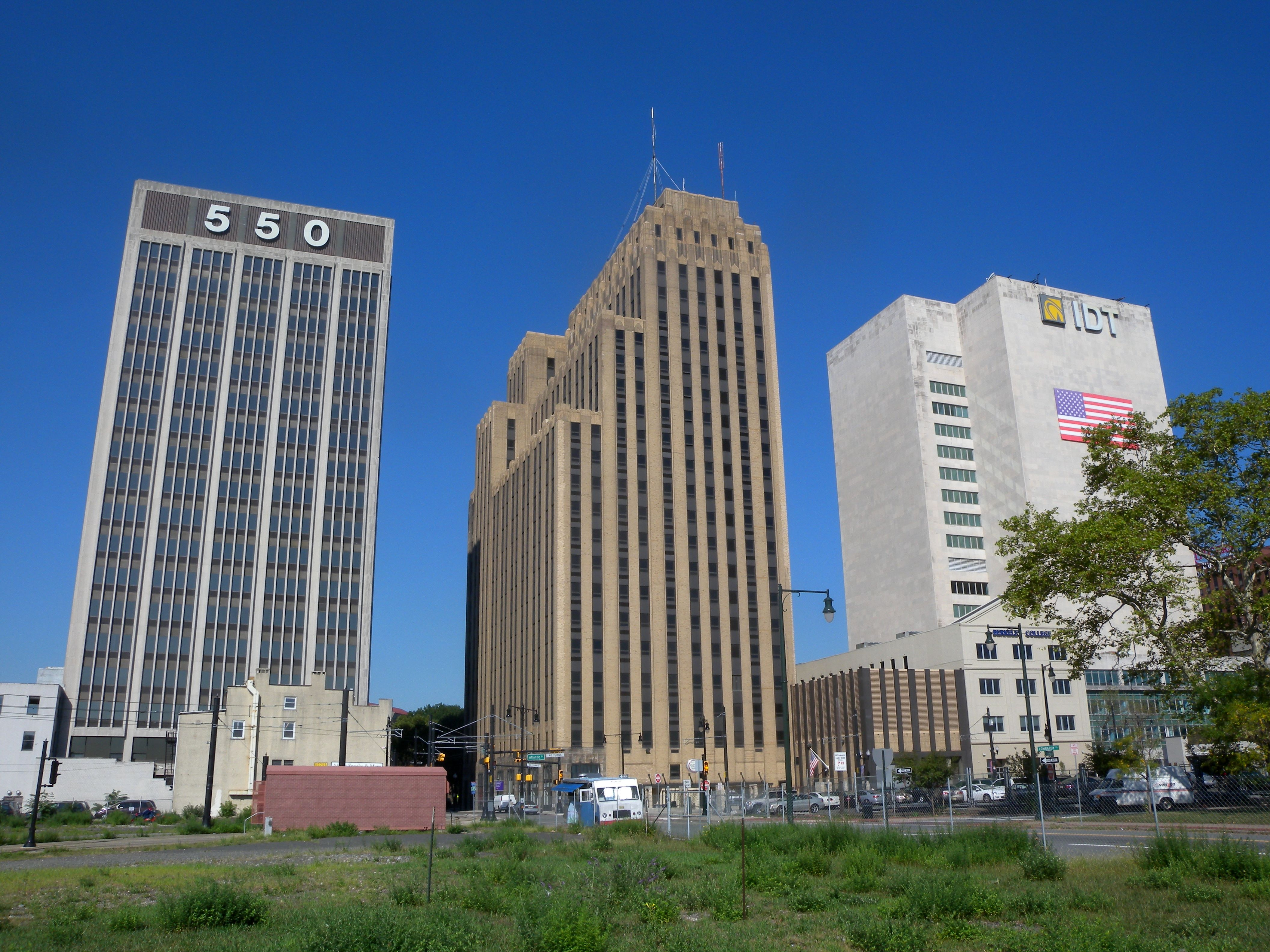 Looking west at (left to right) 550 Broad Street, New Jersey Bell building, and IDT HQ on a sunny morning.